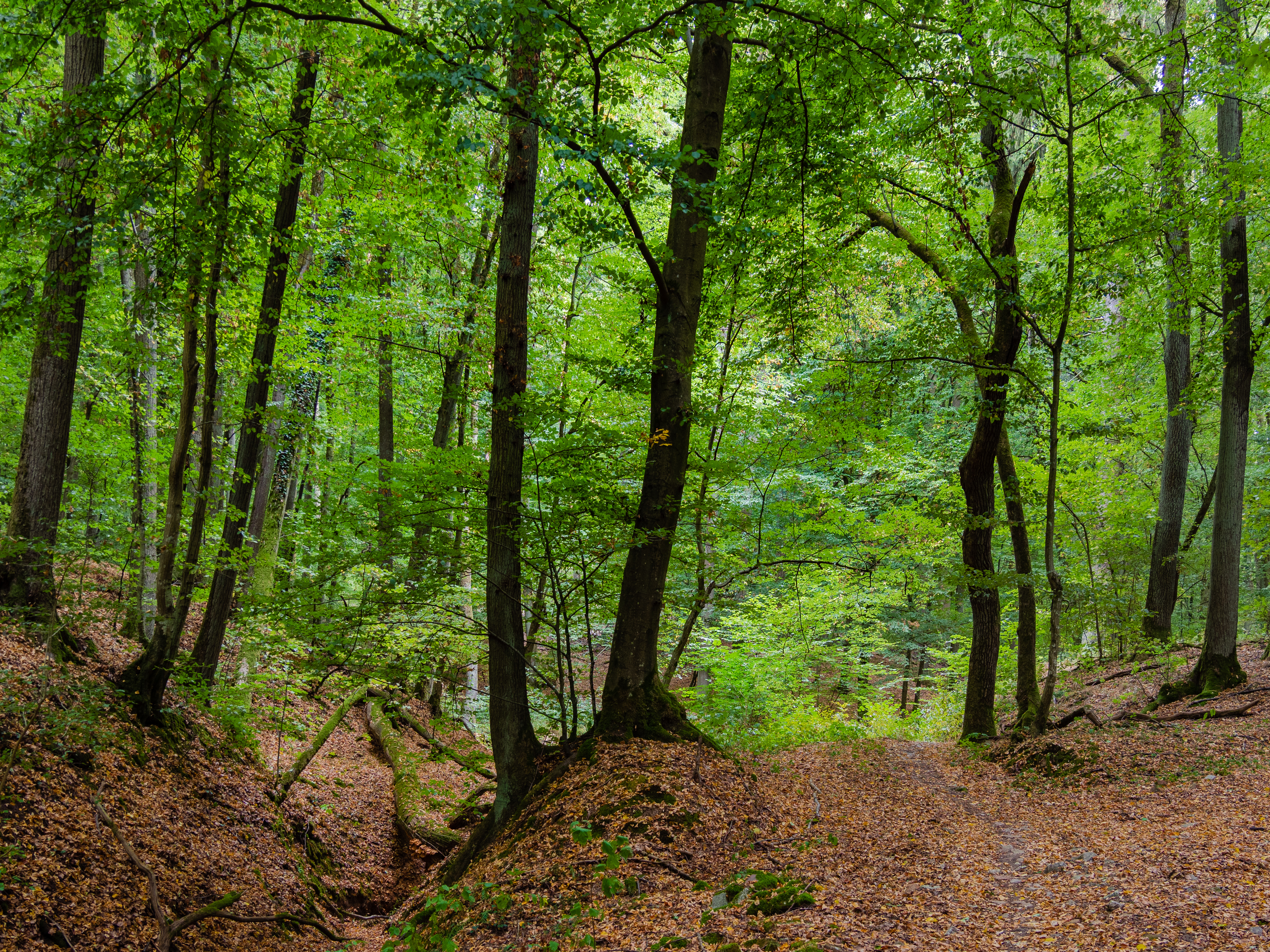 Burgstall near Kemmern in the nature park Haßberge